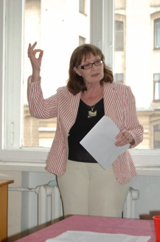 Prof. Liudmila Khroushkova, Russia